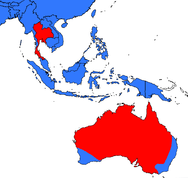 a map of the distribution of the dingo, red = proven distribution,blue = possible distribution